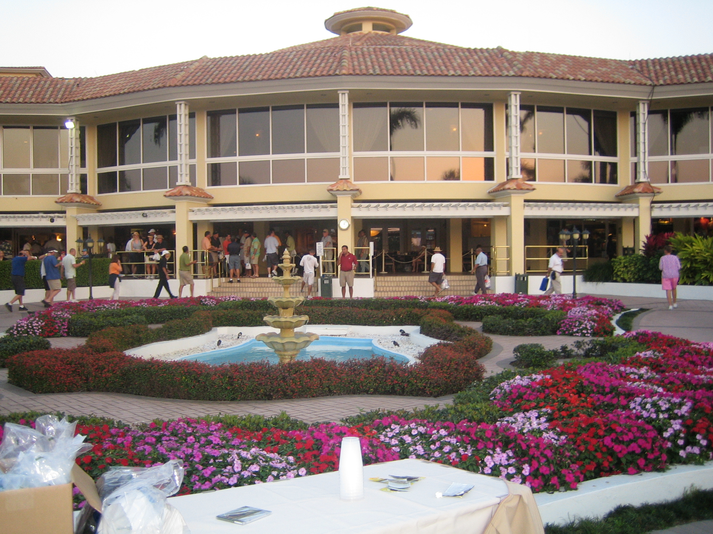 The club house at Doral Golf Resort & Spa in Florida, as seen from the back. Picture taken during the Ford Championship at Doral 2006.